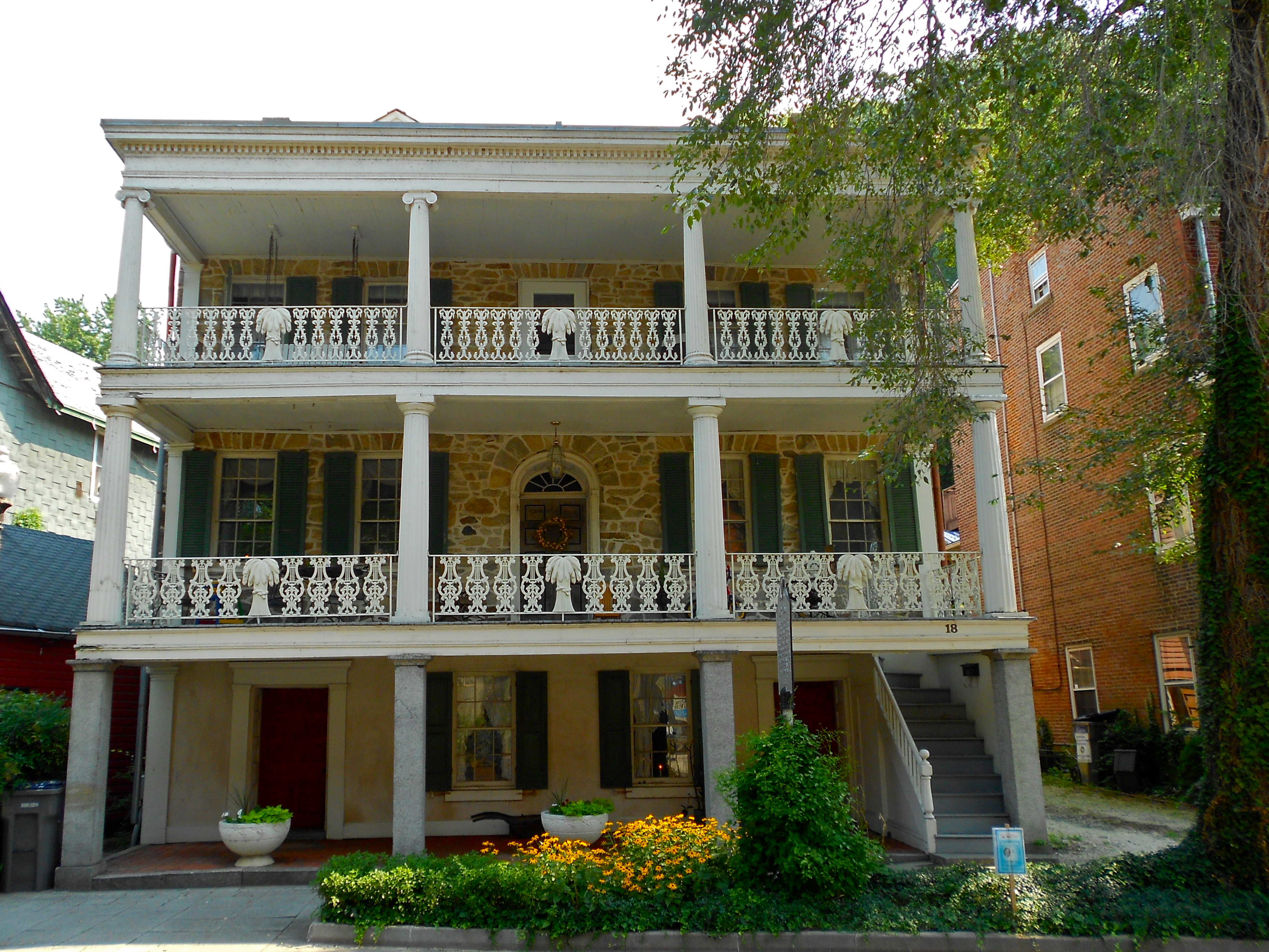 Building in Port Deposit, Maryland. In the NRHP historic district.